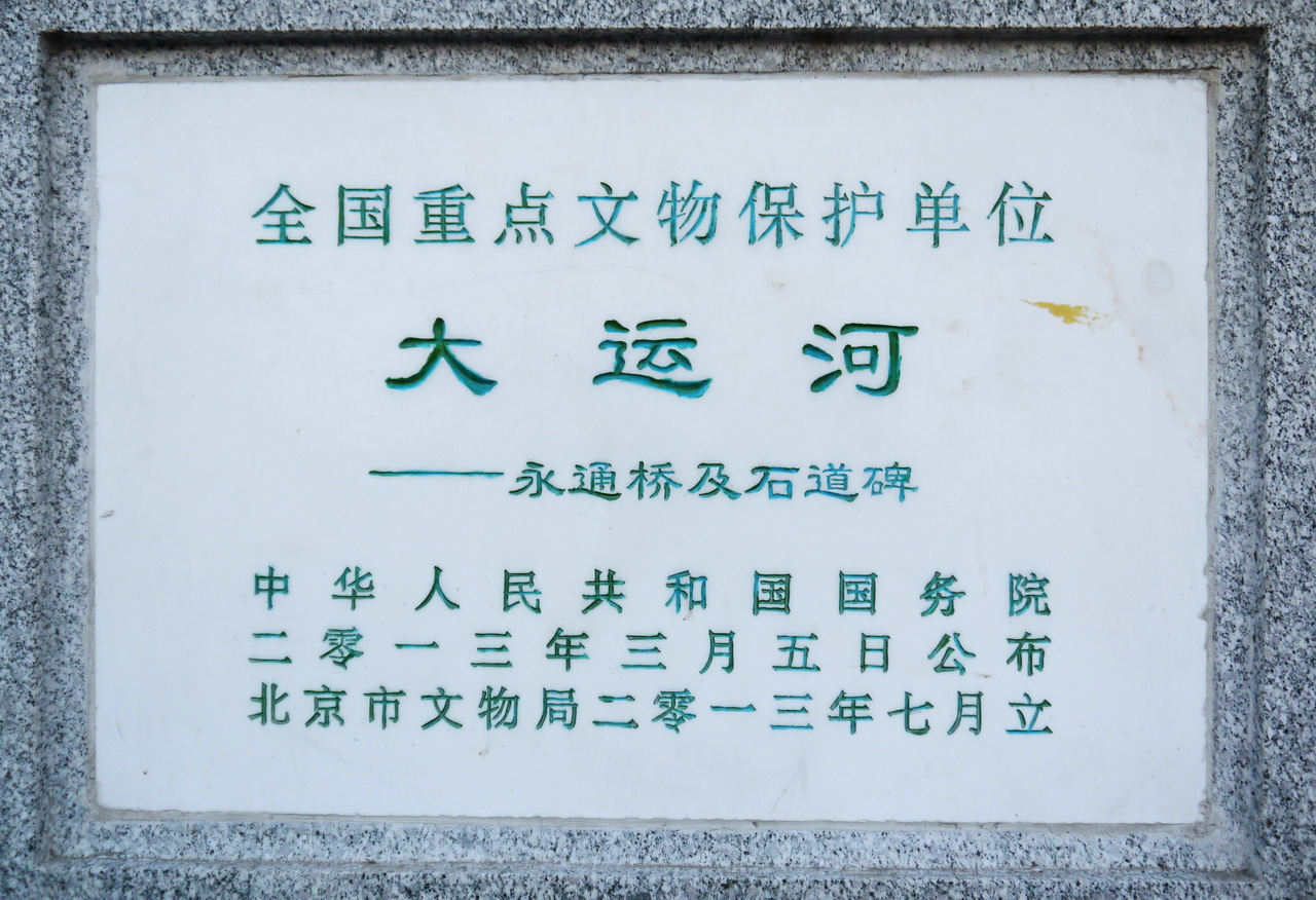 Yongtong Bridge, Grand Canal of China